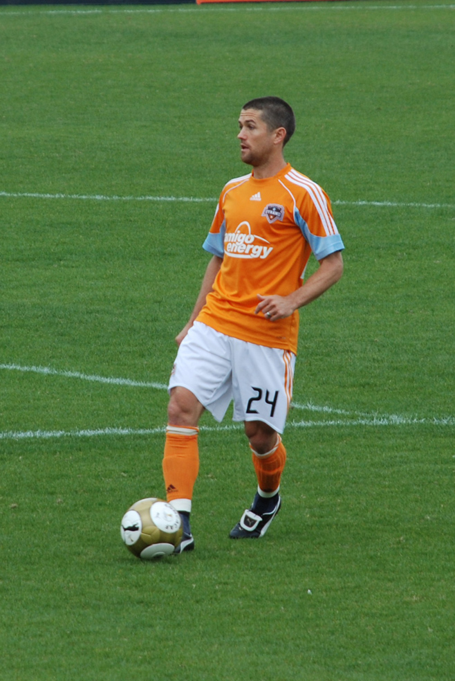 Scrimmage – Houston vs. Montreal @ Robertson Stadium